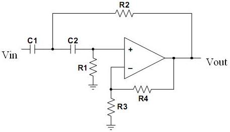 sallen-key filter visokopropusni